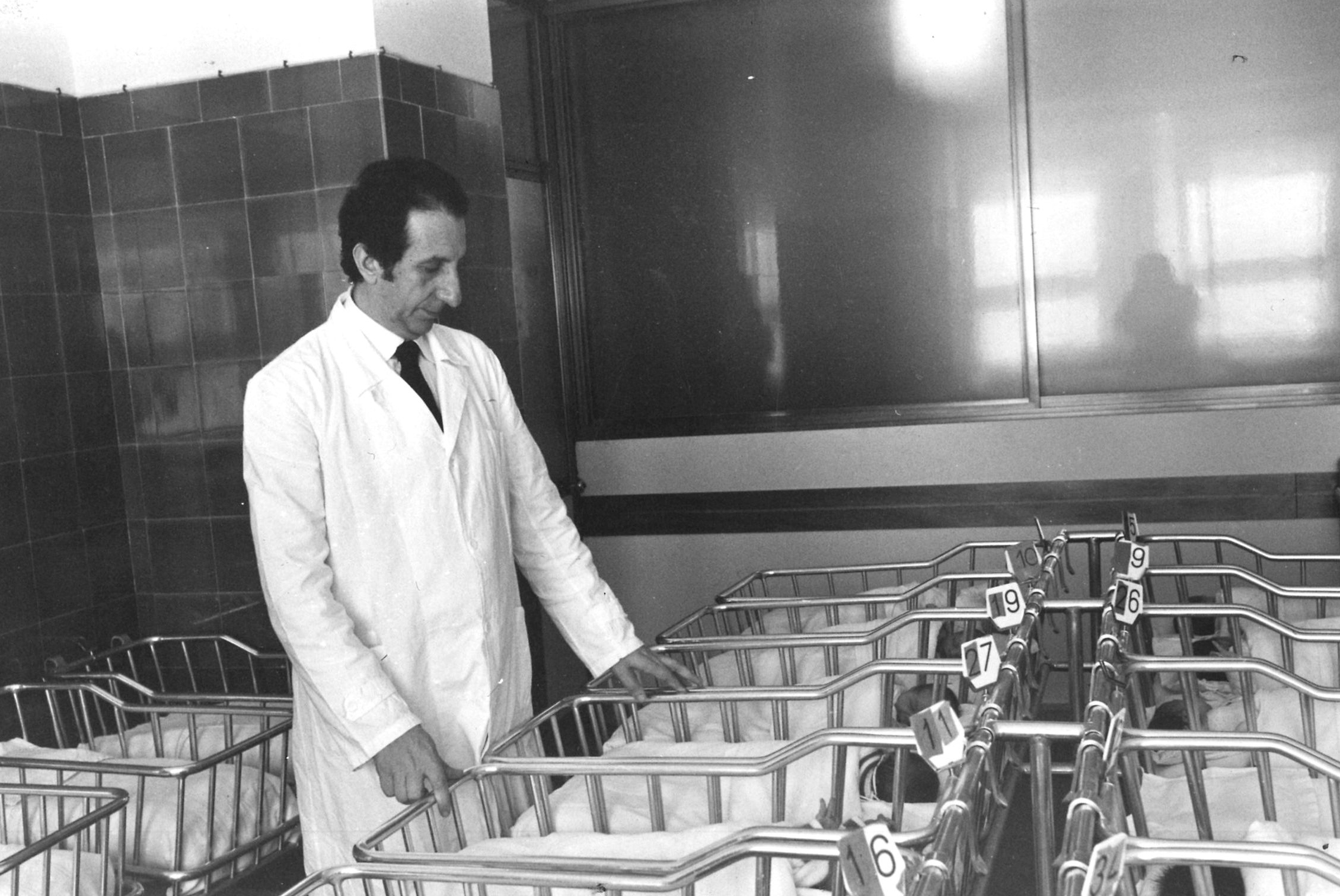 Romano Forleo in his newly inaugurated Obstetrics ward of Ospedale San Giovanni Calibita Fatebenefratelli, Rome (early 1970s)